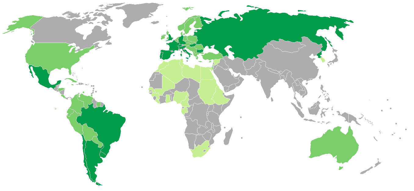 Qualification for the 1966 FIFA World Cup Country didn't participate Country withdrawed or entry didn't accepted by FIFA Country participated in the qualification tournament Country qualified to the finals